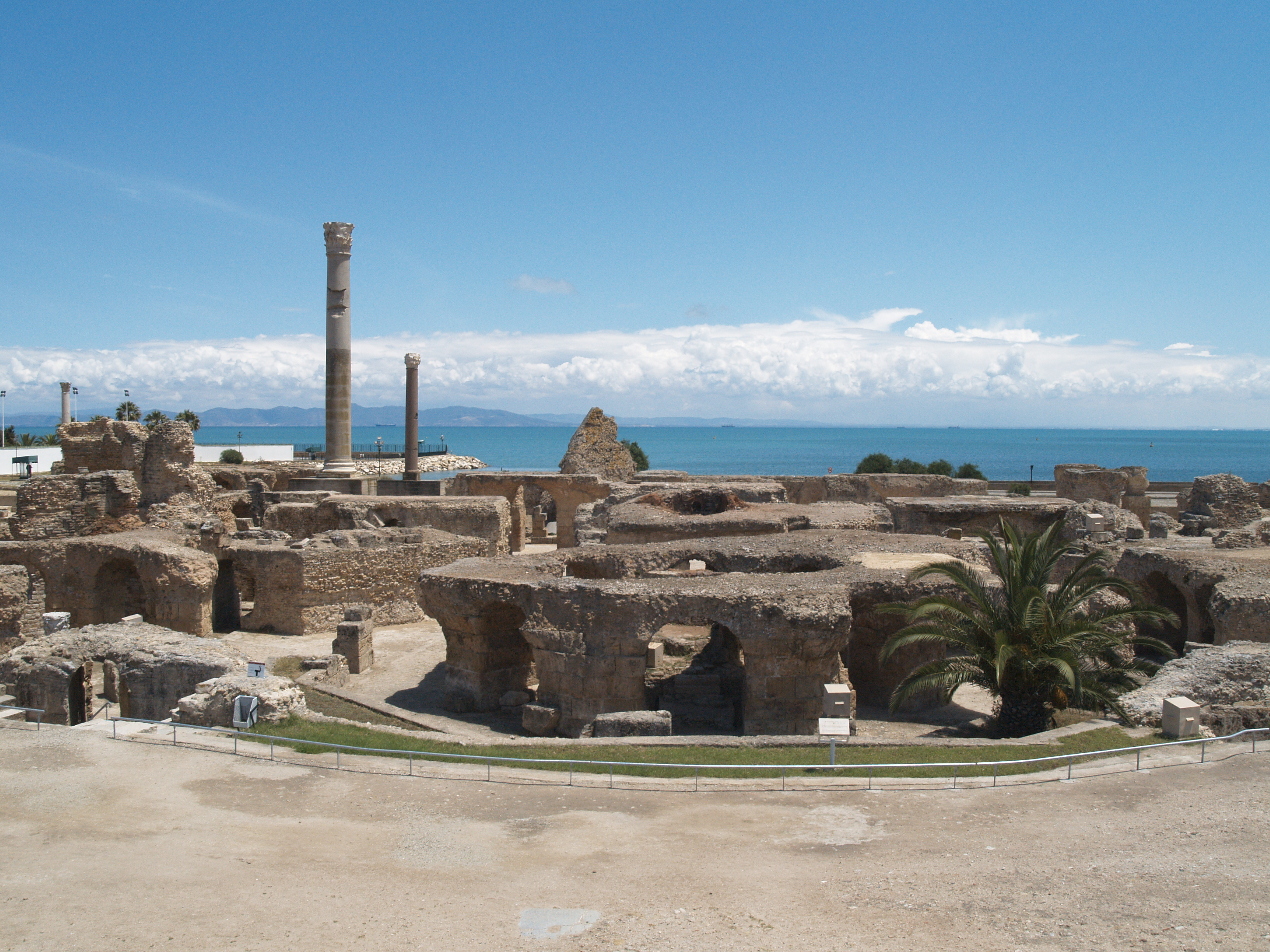 AWIB-ISAW: Antonine Baths at Carthage View of the ruins of the Antonine Baths at Carthage, Tunisia. by Graham Claytor (2007) copyright: 2007 Graham Claytor (used with permission) photographed place: Carthago, Karthago (Carthage) [1] Published by the Institute for the Study of the Ancient World as part of the Ancient World Image Bank (AWIB). Further information: [2].